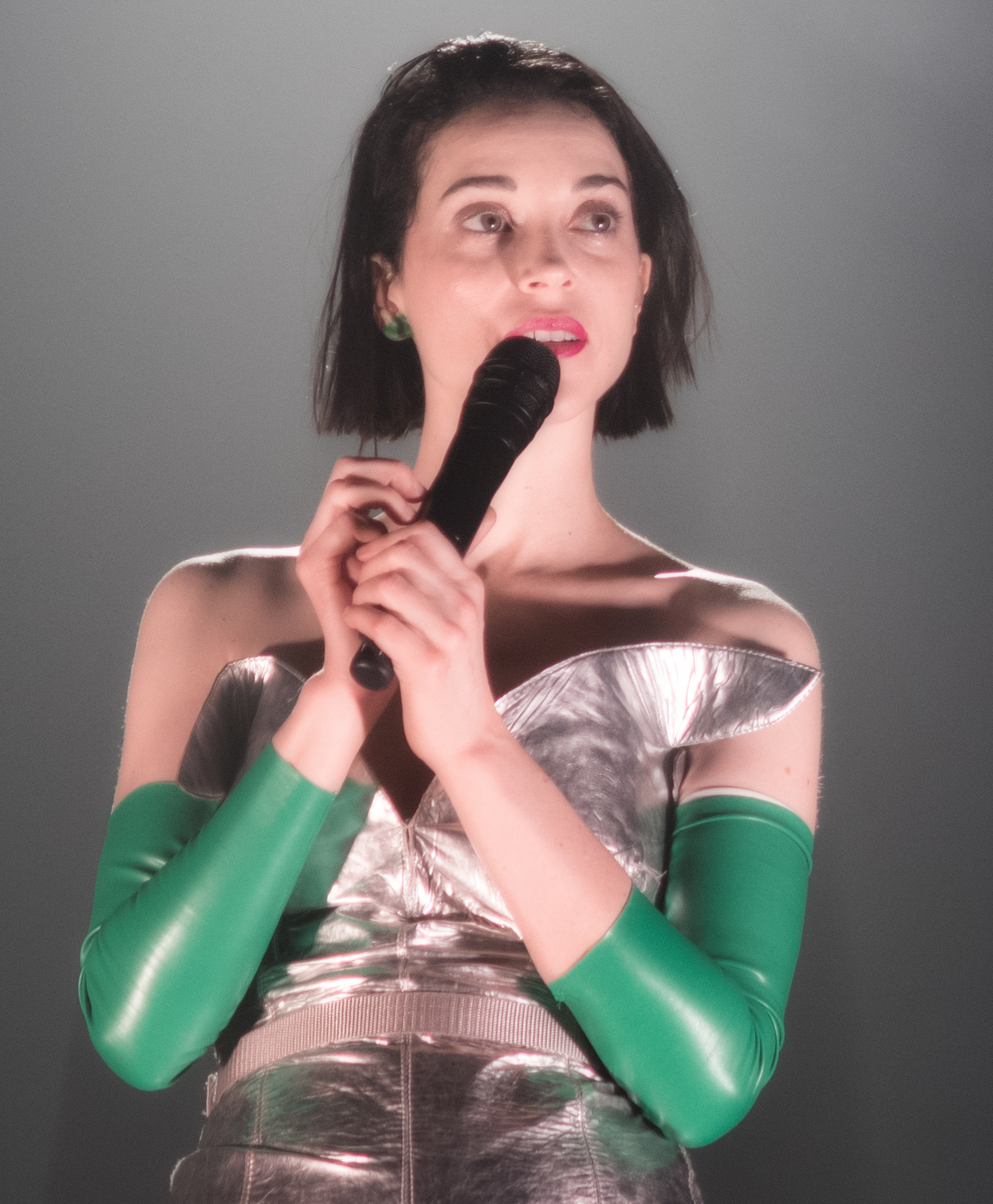 St. Vincent